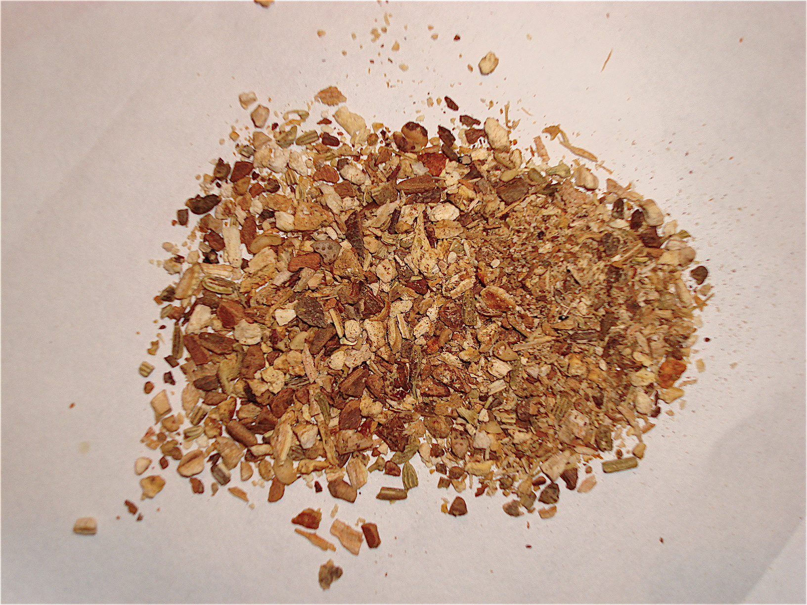 屠蘇散の写真 (Picture of Tososan)